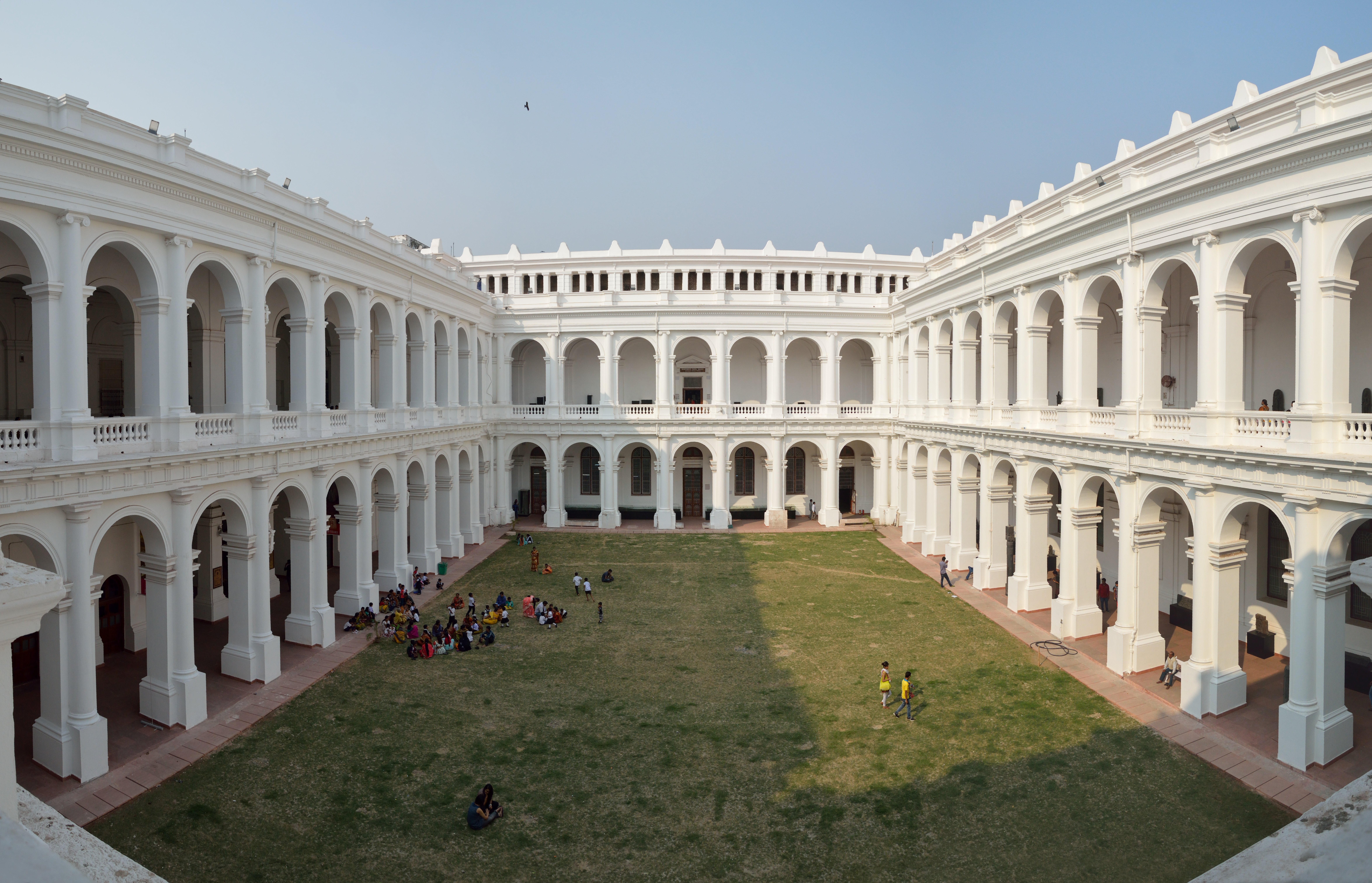 Photographed in Kolkata.